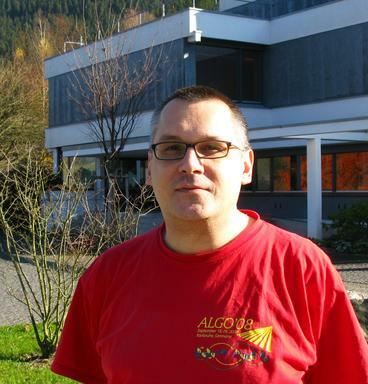 On the Photo: Woeginger, Gerhard — Occasion:Workshop: Combinatorial Optimization — Location: Oberwolfach — Year: 2011